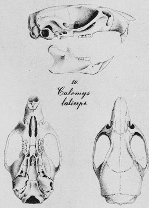 Skull of a specimen identified as Calomys laticeps (Lund) by Winge. It was reidentified as Oryzomys subflavus, currently Cerradomys subflavus, by Musser et al. (1998). However, two species of Cerradomys are now known to occur at Lagoa Santa; confirmation is needed whether this is C. scotti or C. subflavus.